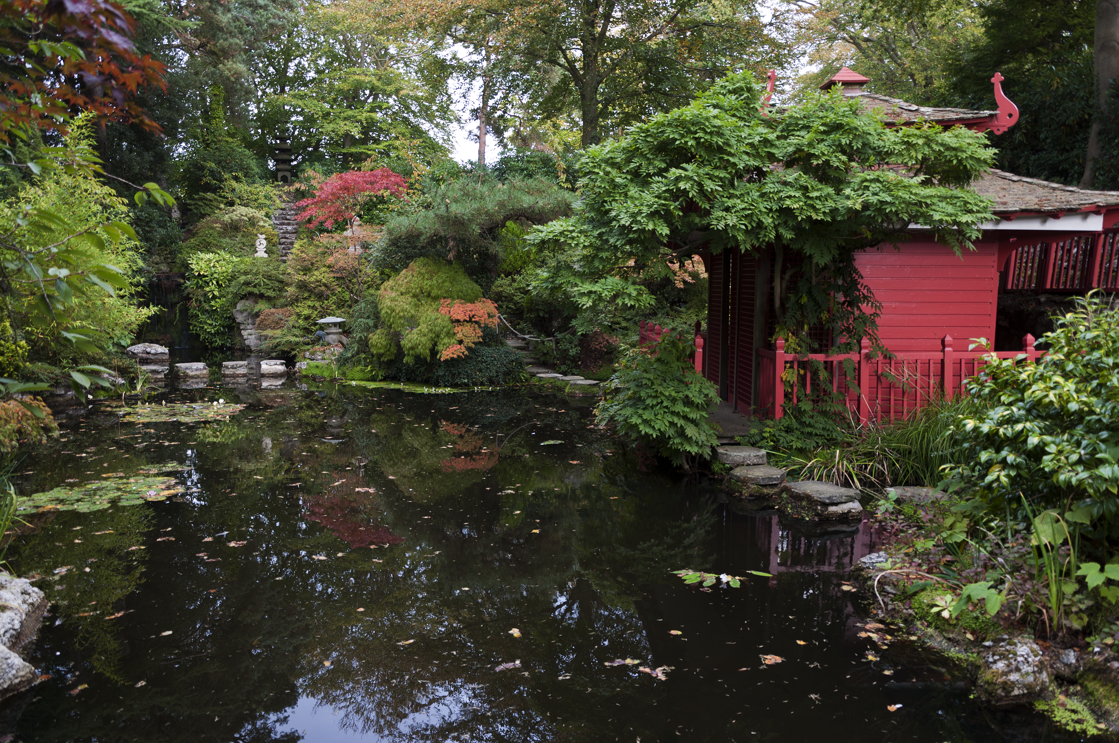 Compton Acres, Poole, South West England